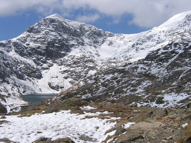 A walk up the Pyg track - a glimpse of Glaslyn. The Pyg track veers to the right here and then turns back across the dark slope ahead. The track is heading for the low point in the snowy ridge where it joins the Llanberis path. The lake Glaslyn can be seen beneath the summit of Snowdon/Yr Wyddfa. For the next photo in this series see 772988